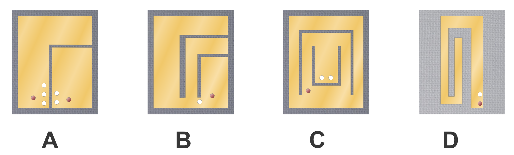 Various topologies of multi-band printed inverted-F antennae